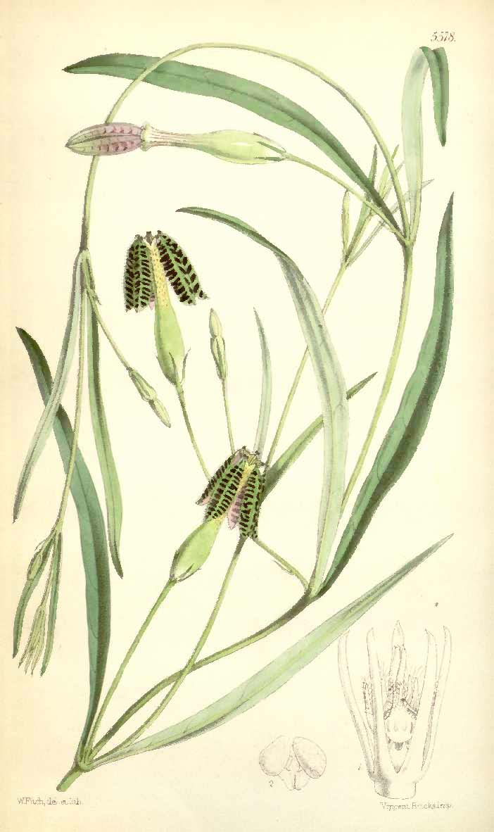 Ceropegia bowkeri ssp. sororia Hook. f., "Kaffraria" (today Eastern Cape), South Africa from Curtis's Botanical Magazine, vol.92, Tab.5578, 1866